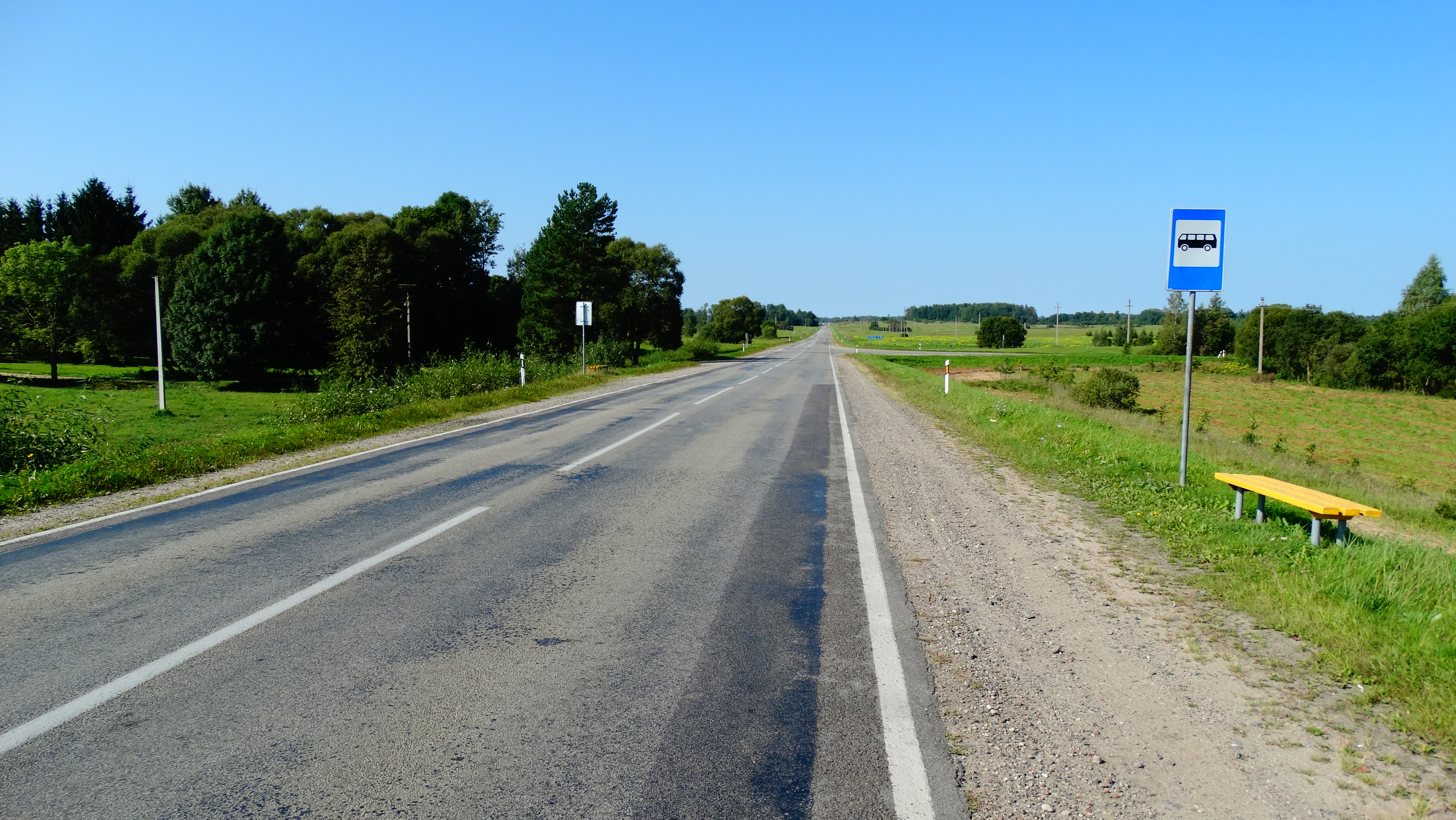 Road 117, Zarasai District, Lithuania